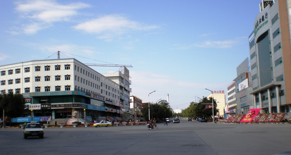 Wusu (乌苏; also known as Usu) is a county-level city in Xinjiang. It is a part of Tacheng Prefecture of ili Kazakh,China